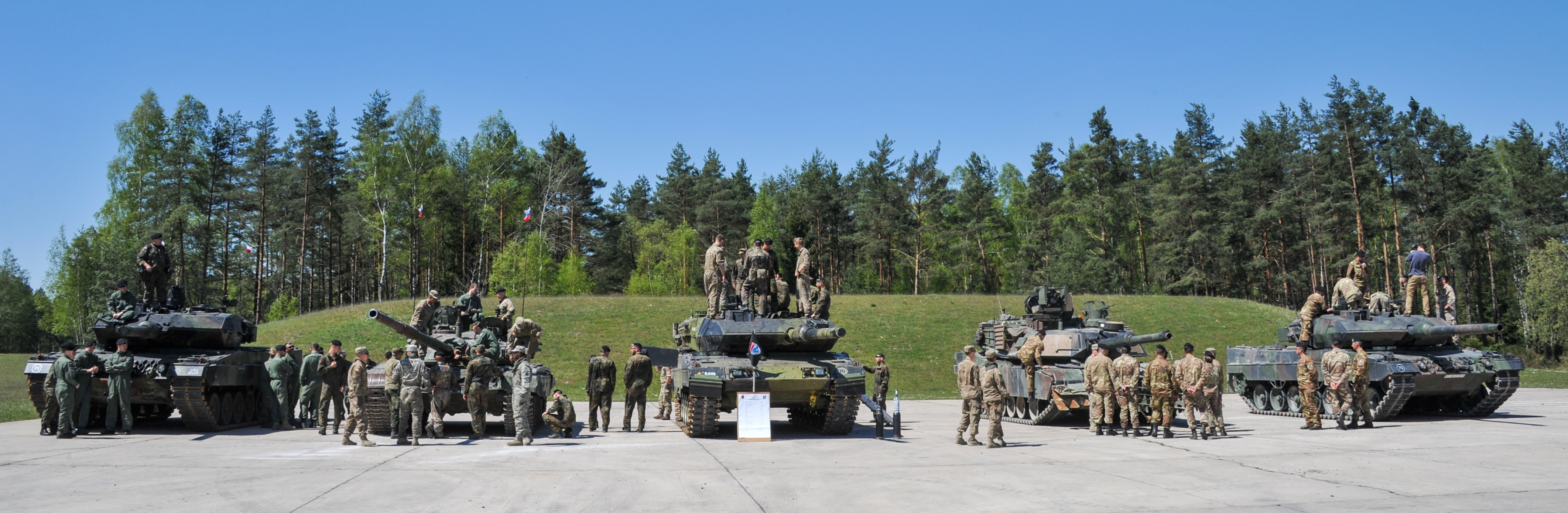 Soldiers from all nations participating in the Strong Europe Tank Challenge (SETC) inspect each others equiment May 08, 2016 at Grafenwoehr Training Area, Germany. The SETC is co-hosted by U.S. Army Europe and the German Bundeswehr May 10-13, 2016. The competition is designed to foster military partnership while promoting NATO interoperability. Seven platoons from six NATO nations are competing in SETC - the first multinational tank challenge at Grafenwoehr in 25 years. For more photos, videos and stories from the Strong Europe Tank Challenge, go to (U.S. Army photo by Visual Information Specialist Markus Rauchenberger/released)